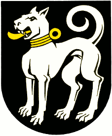 coat of arms city of Ermatingen (Switzerland)